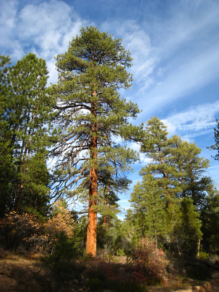 Pinus ponderosa var. brachyptera, Mutton Hollow, Bryce Canyon, Utah